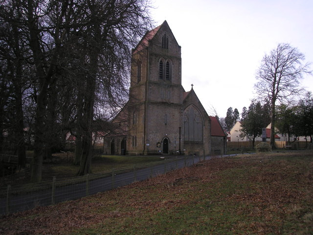 Glencorse Kirk The Church of Scotland Parish Church for Glencorse. The minister of Glencorse is also minister of the two nearby congregations in Roslin and in Bilston. The church is on the edge of Glencorse (or Milton Bridge) and the view is from a neighbouring farmer's field. The War Memorial is to the right of the church building (above the hay trough) and the houses behind the church belong to the Ministry of Defence and provide accommodation for personnel based at the Glencorse Barracks.